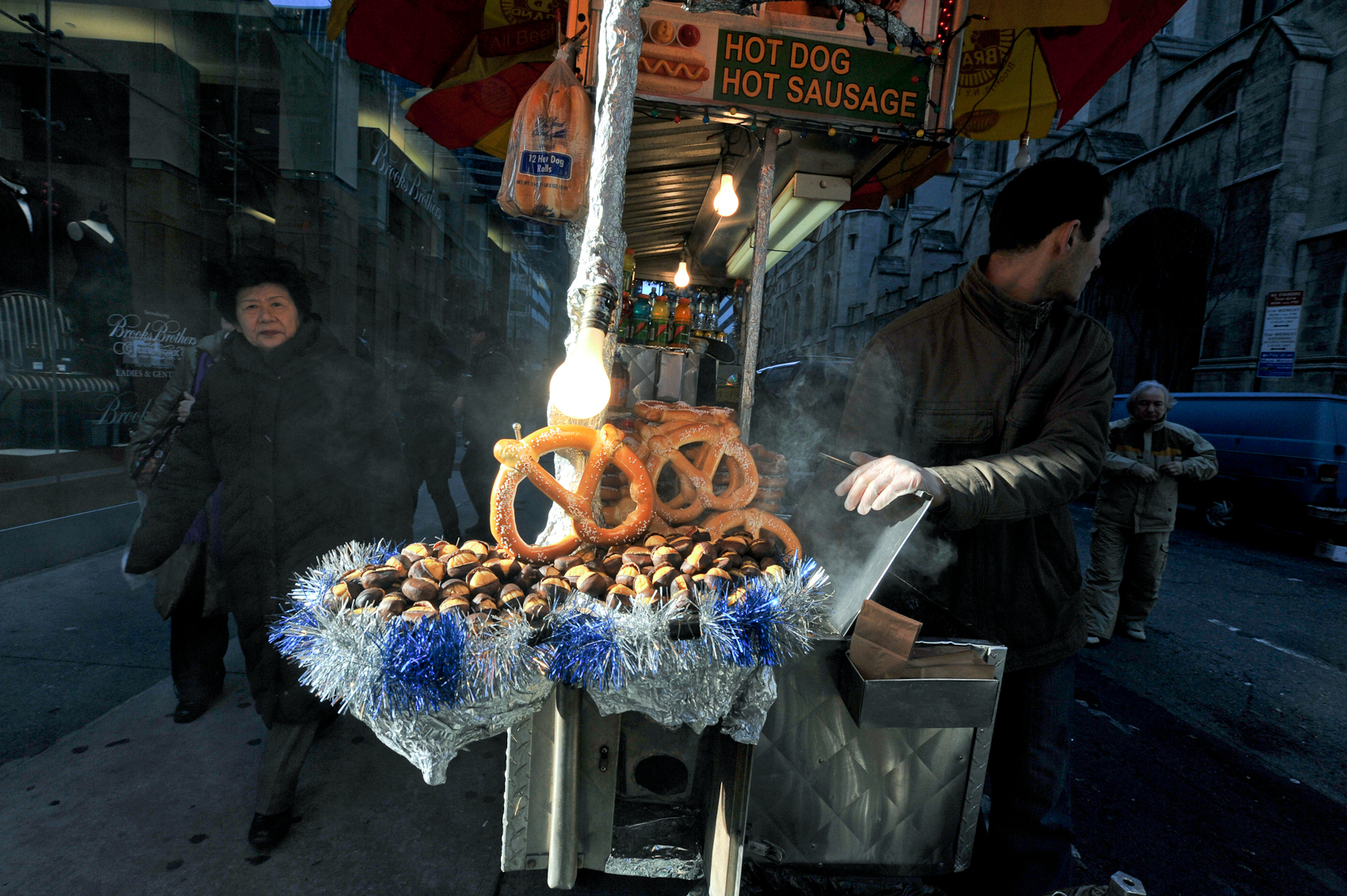 The sun gives the pretzels an almost angelic glow.